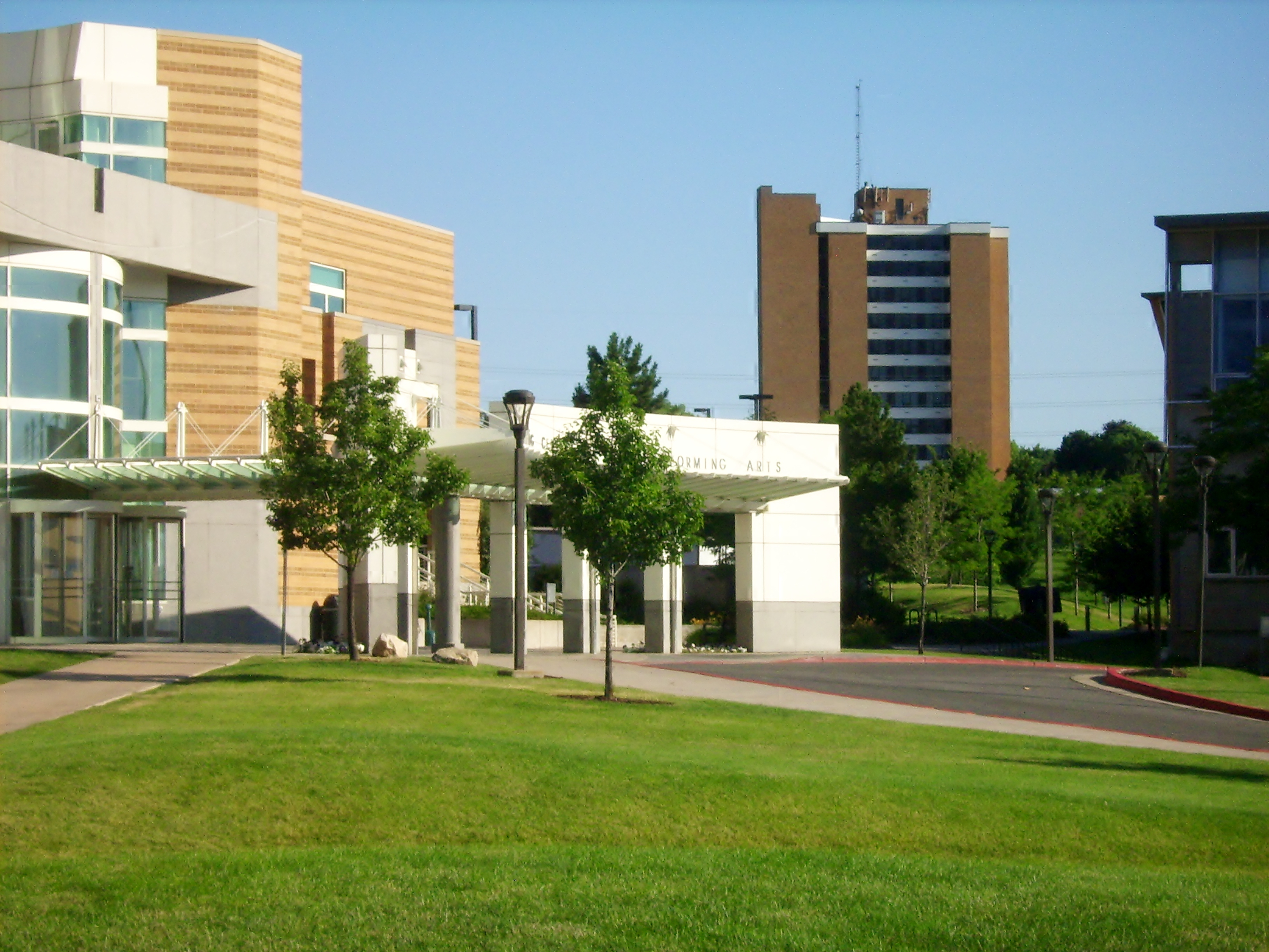 Weber State University campus